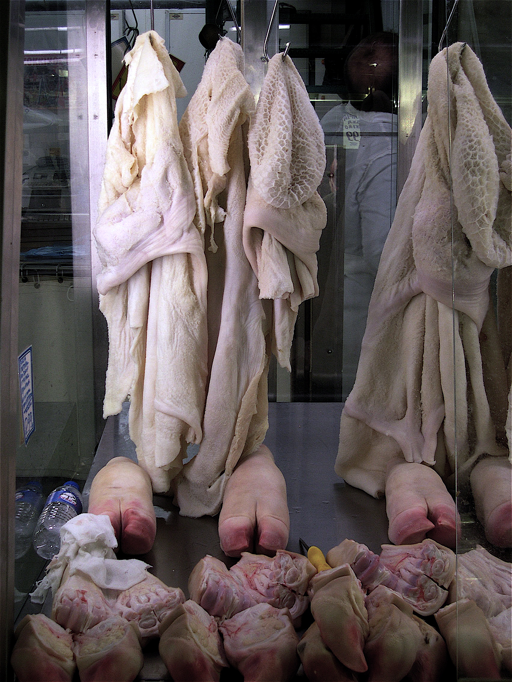 Tripe at the Central Market, Athens.